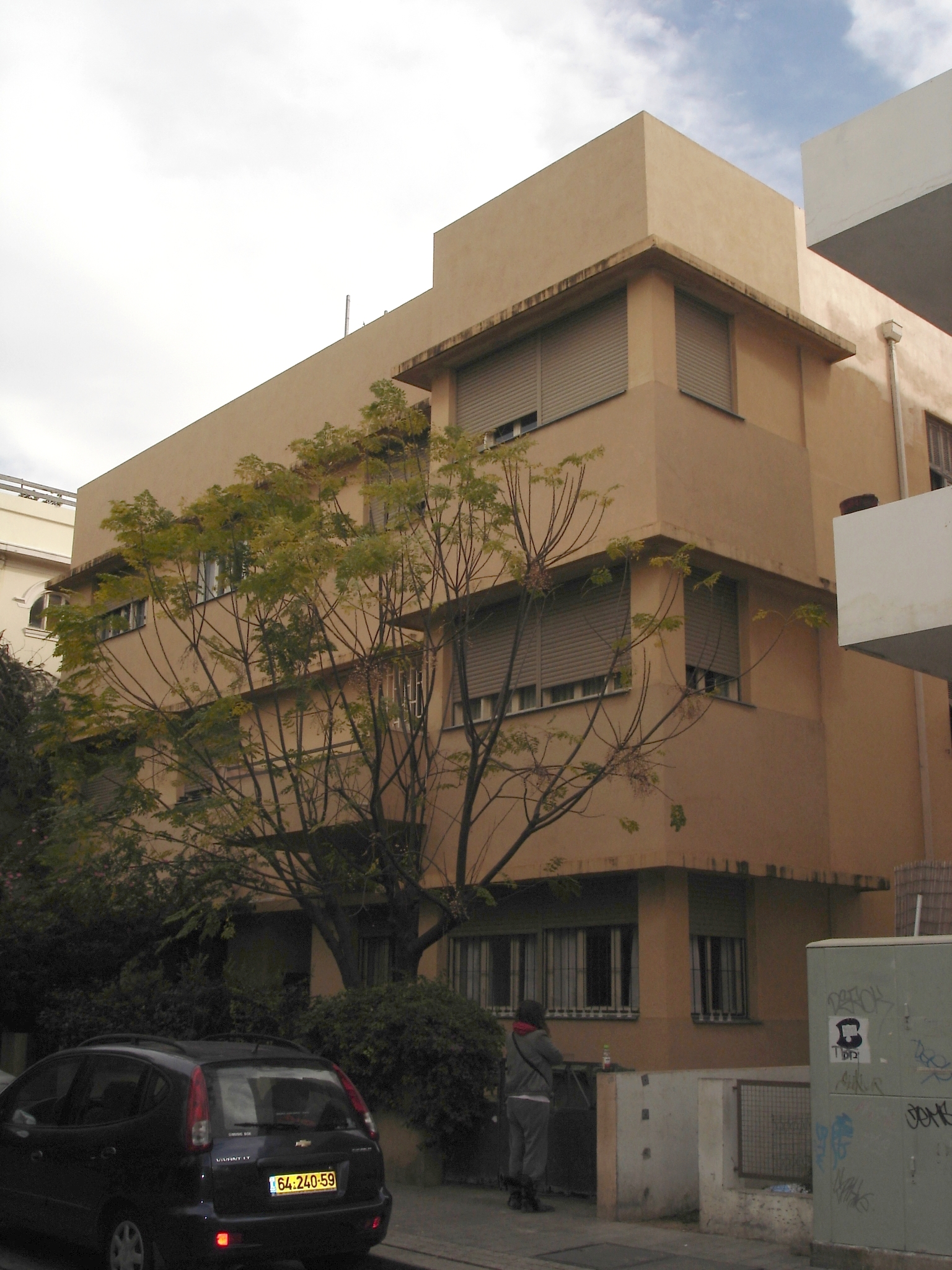 Home of Dr Krinsky, 8 Bialik St, Tel Aviv, built in 1933 by architect Yaakov Orenstein